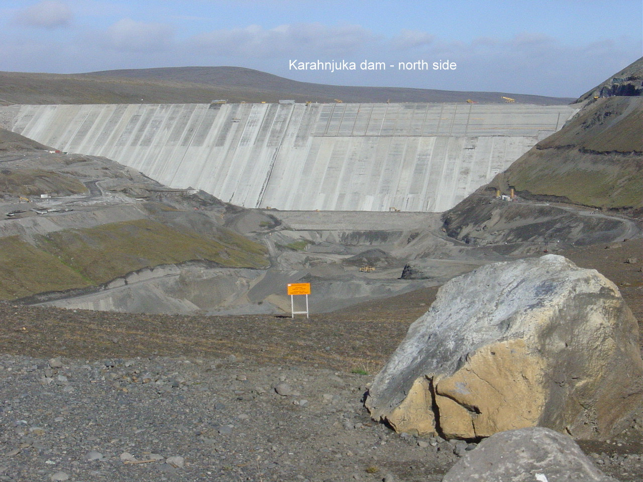 Kárahnjúkar Hydroelectric Project. Installed capacity 690 MW The Kárahnjúkar dam has a maximum height of 193 m is of 730m length and was constructed using 8.5 million m3 of fill materials. The Desjará dam is 60 m in height and of 1100m length. Sauðárdals dam. Maximum dam height 25 m. Dam length 1100 m accessed 8. May 2009. Looking south.